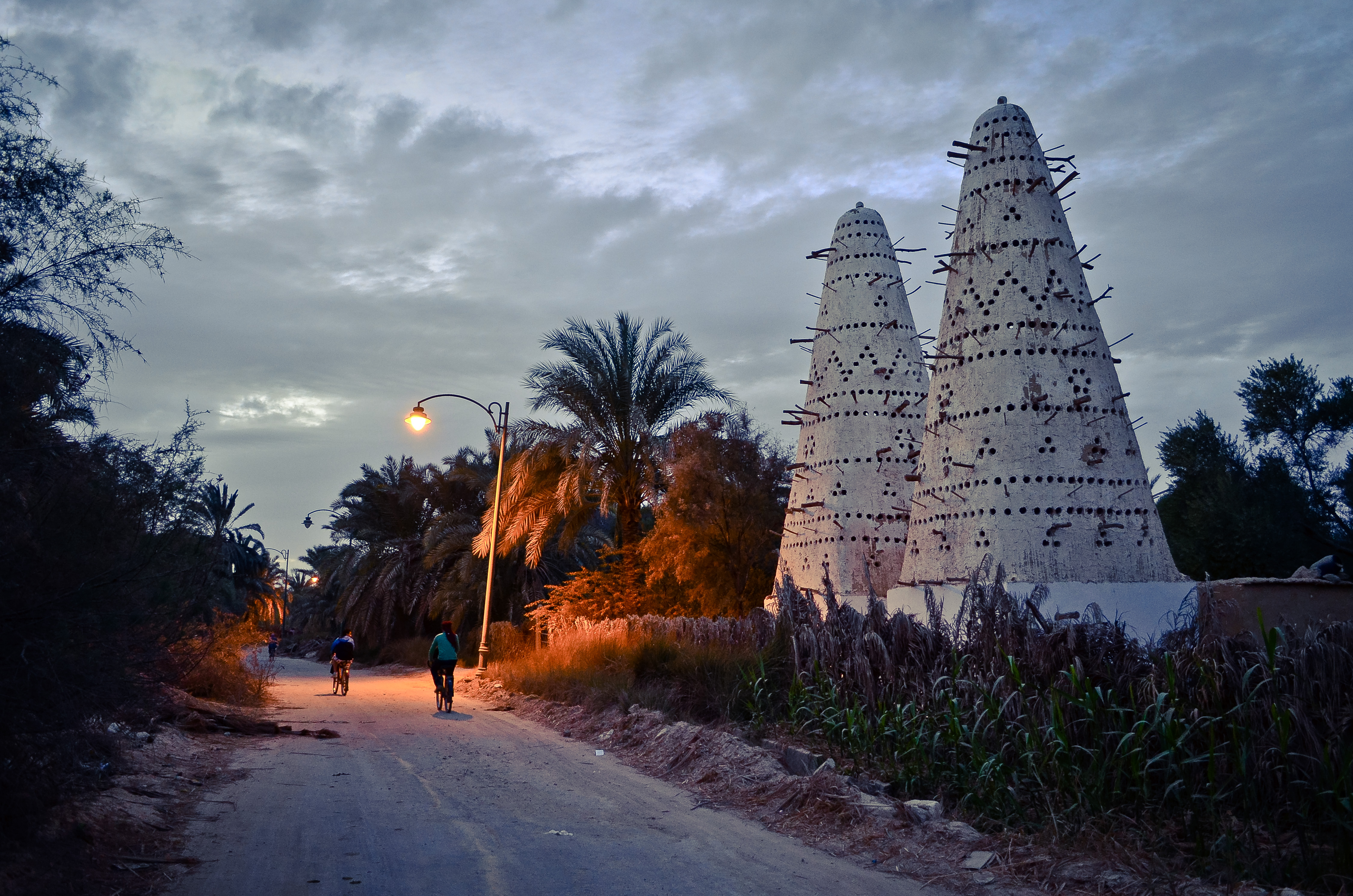 The Siwa Oasis (Siwi: Isiwan; Arabic: واحة سيوة Wāḥat Sīwah, IPA: [ˈwæːħet ˈsiːwæ]) is an oasis in Egypt, between the Qattara Depression and the Egyptian Sand Sea in the Libyan Desert, nearly 50 km (30 mi) east of the Libyan border, and 560 km (348 mi) from Cairo.